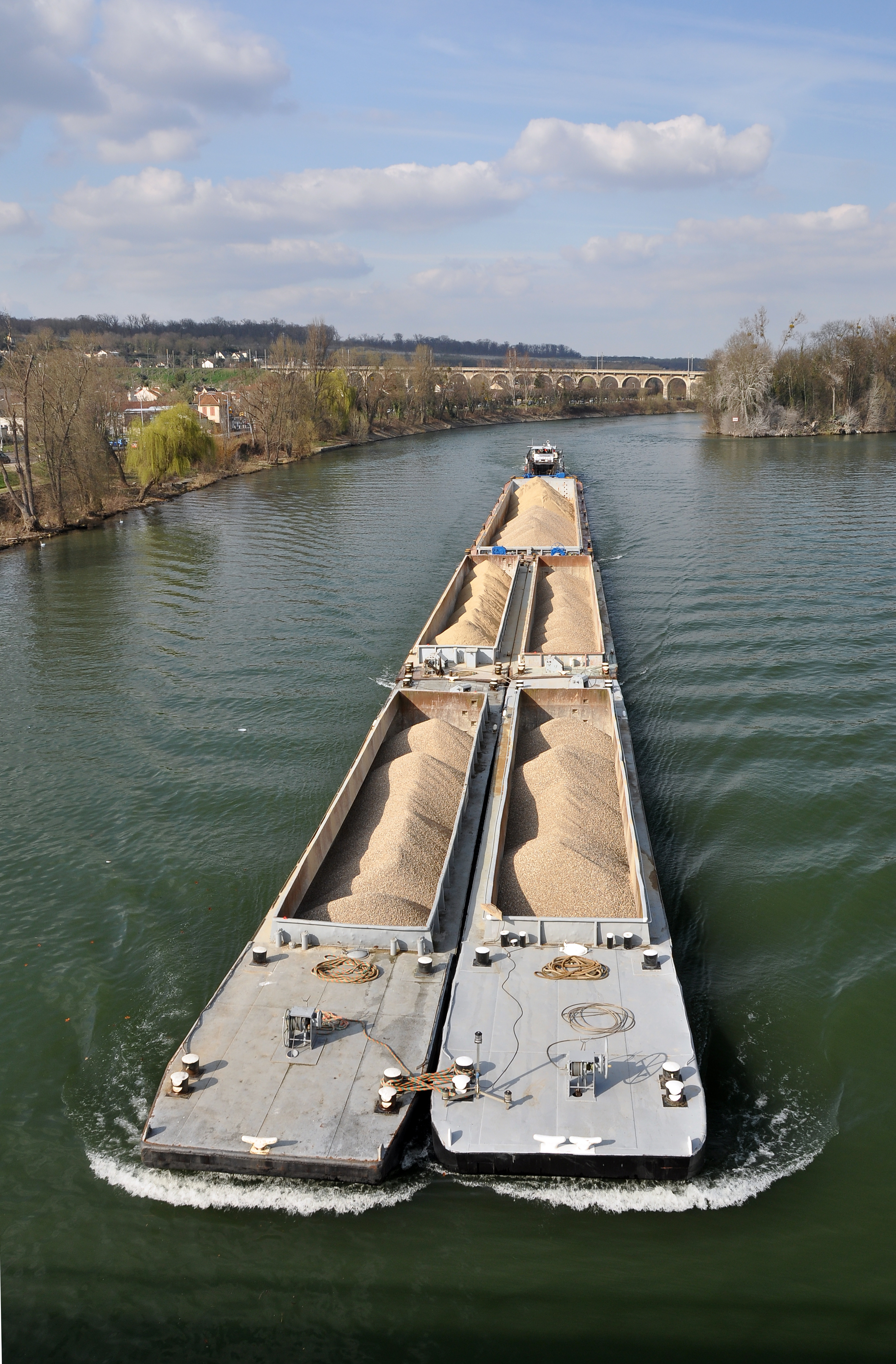 Barge on Seine River in Le Pecq, Yvelines department in France. In the background Viaduc railroad of Le Pecq crossing the Island Corbière.